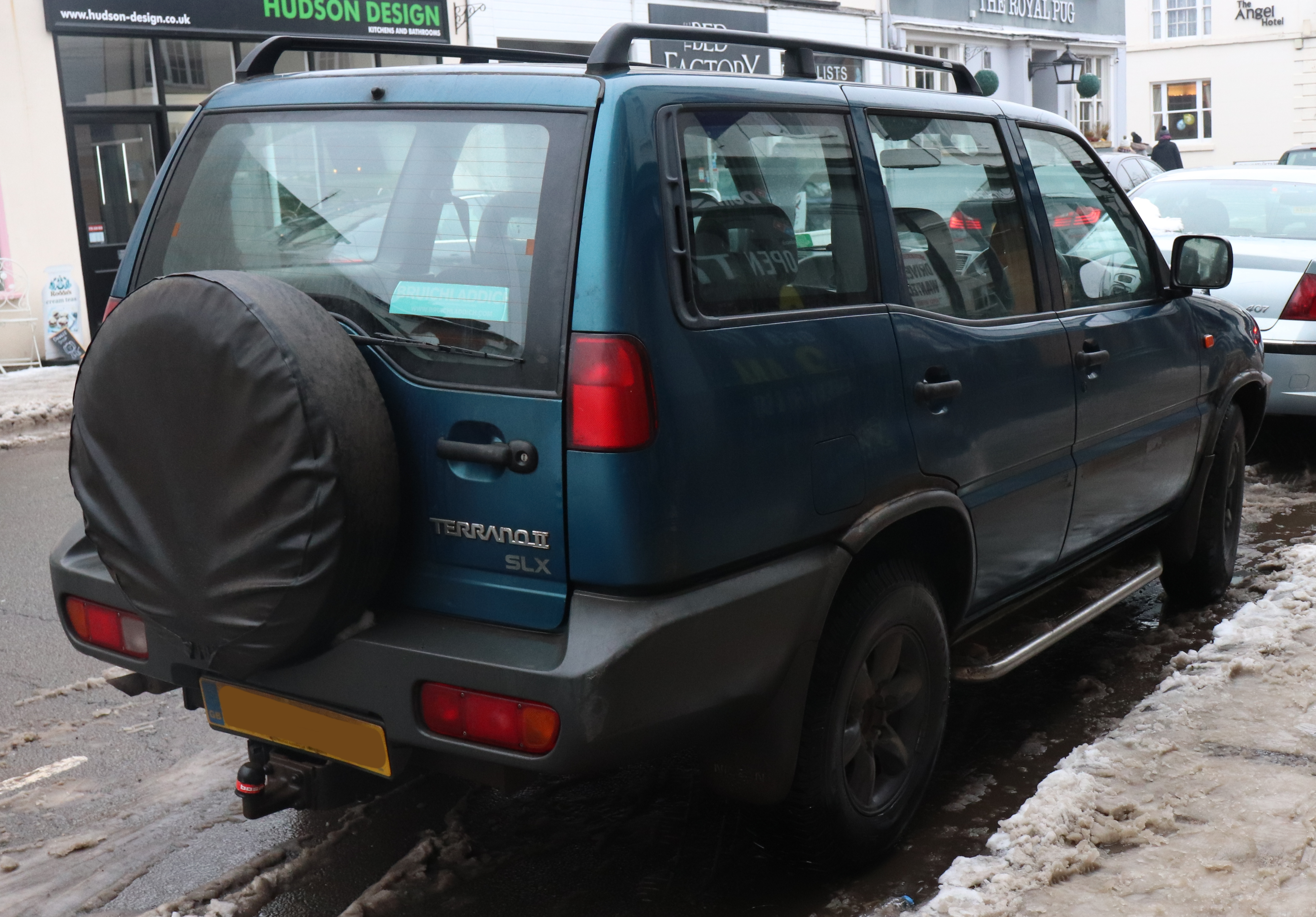 1994 Nissan Terrano II SLX 2.4 Rear Taken in Leamington Spa